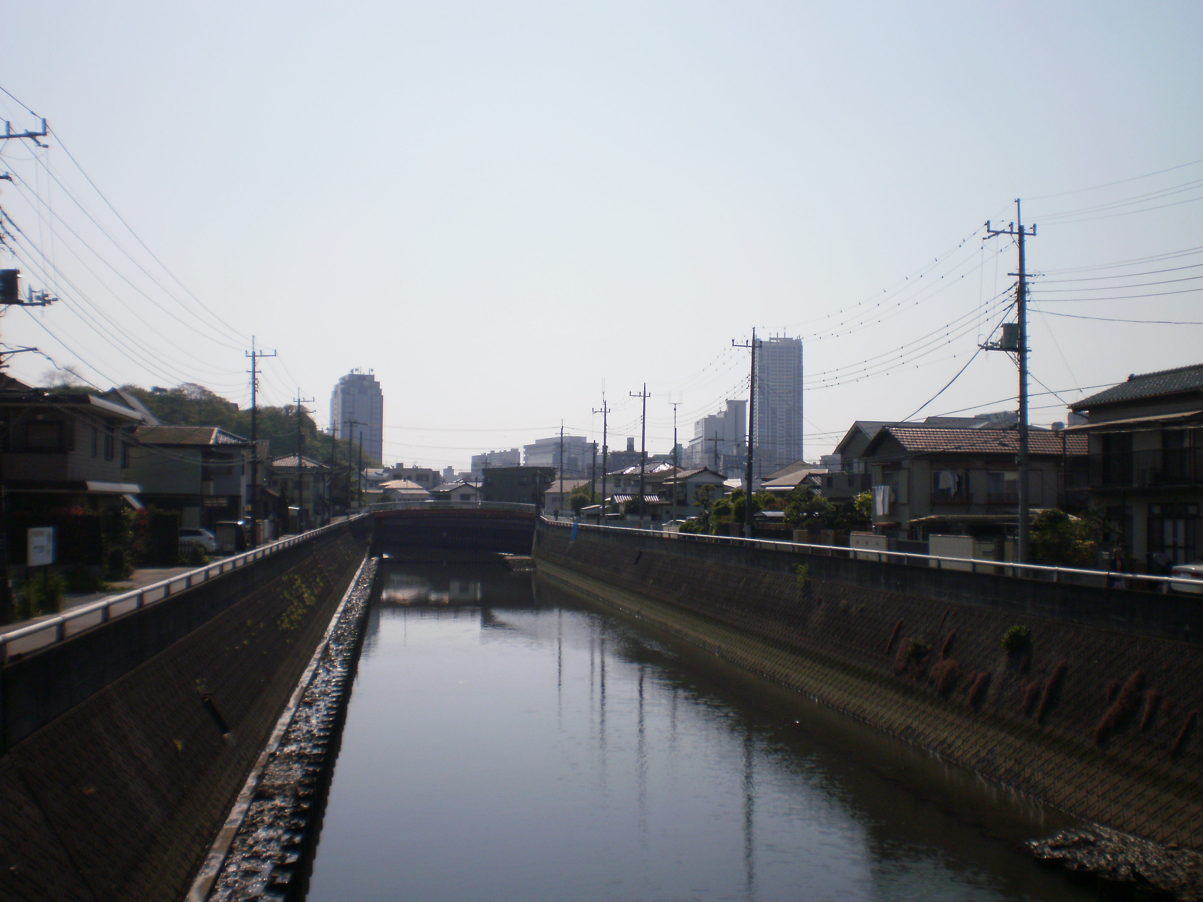 Miyakoriver the downstream are hoped for more than warawahashi.